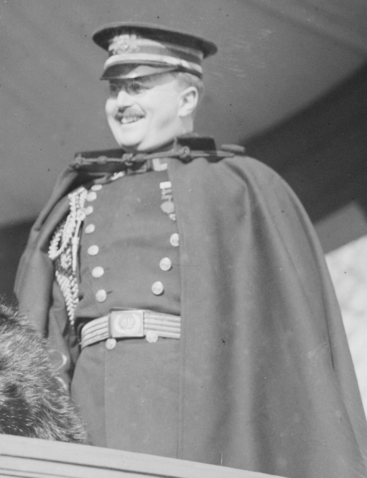 Lorillard Spencer in 1915. Cropped from a larger image.